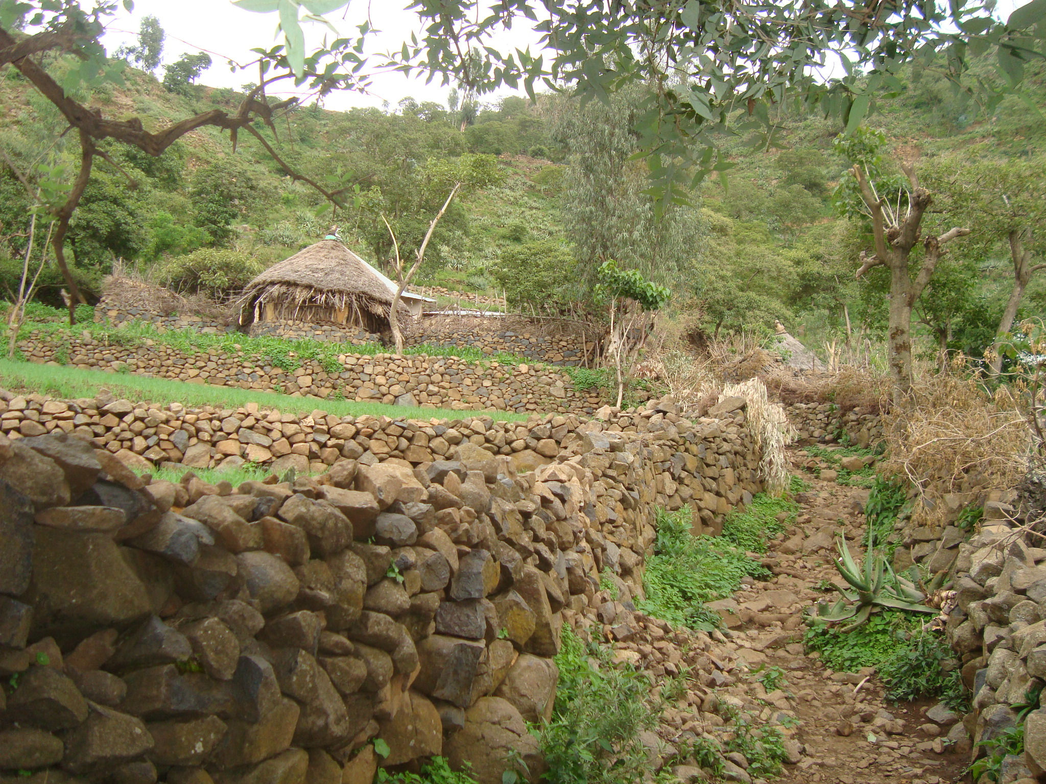 Lower basalt - La'ilay Gumuara (Dogu'a Tembien)